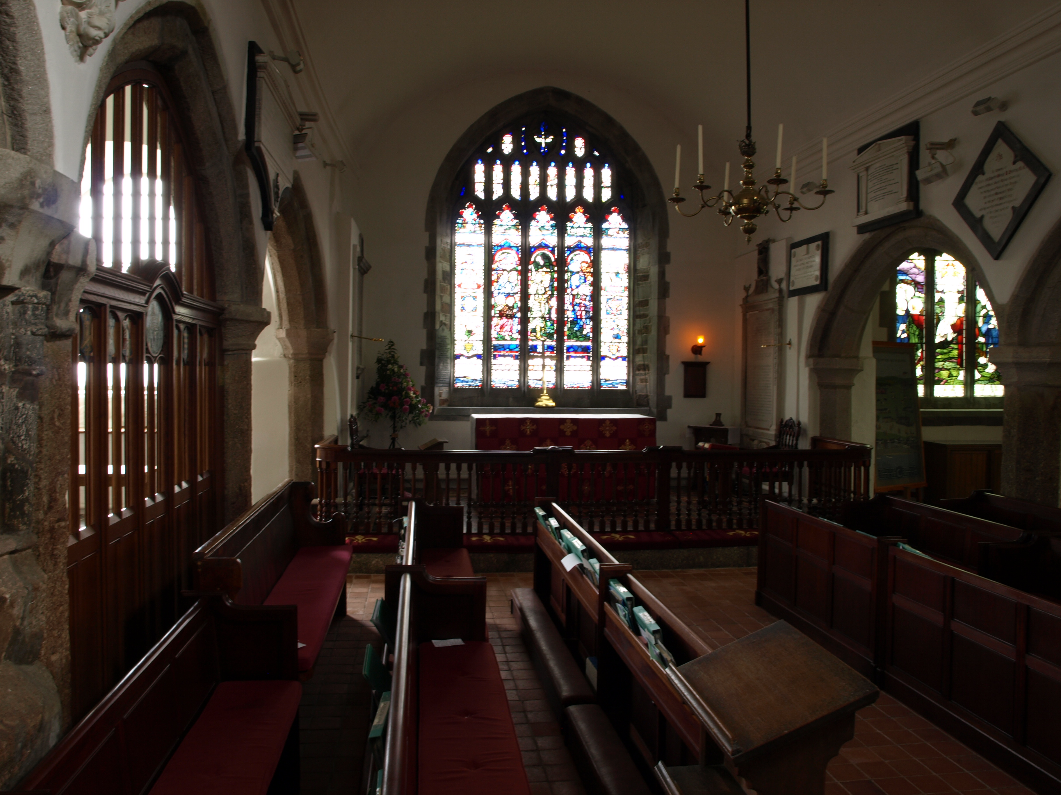 Paul Church, Cornwall